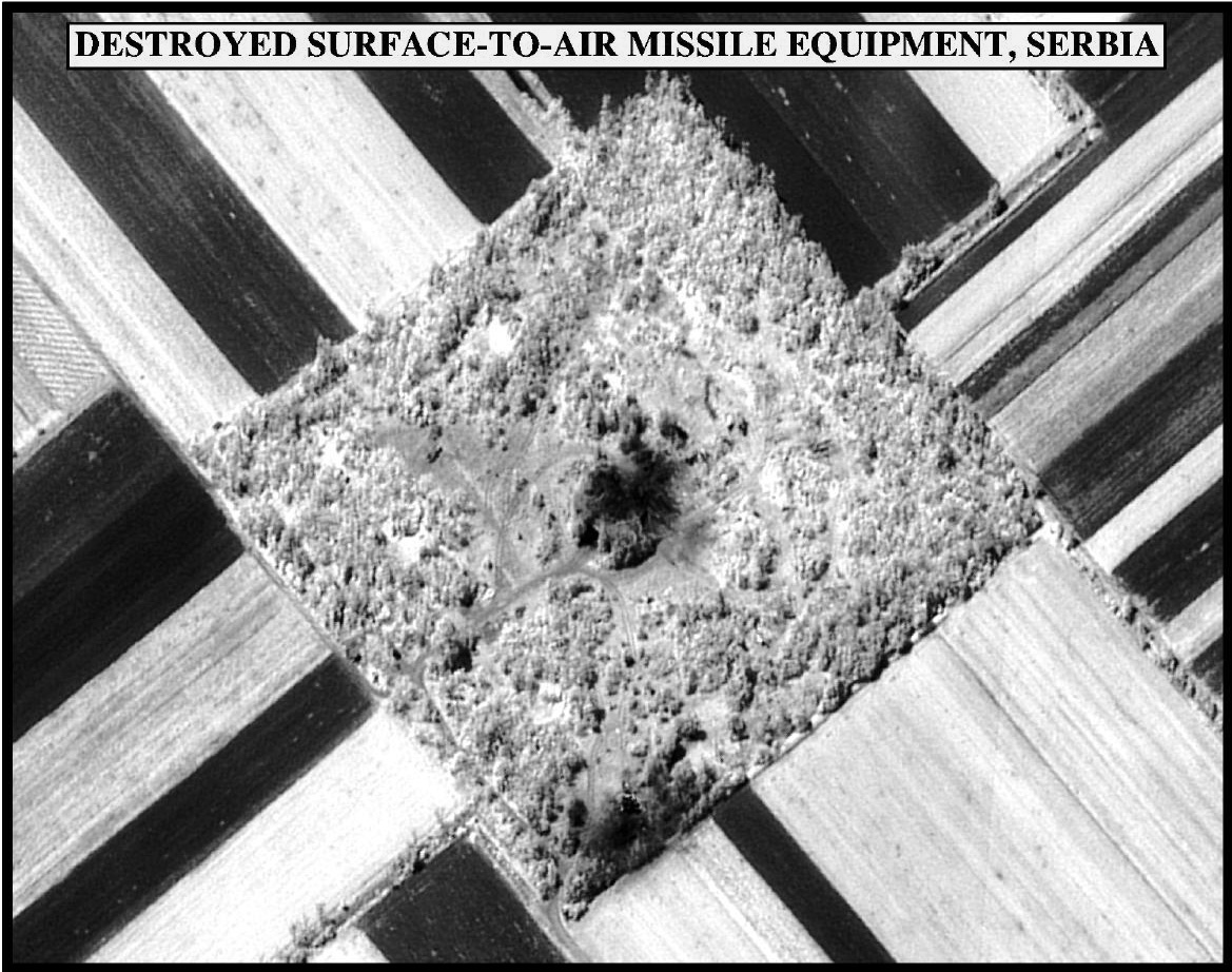 Post-strike bomb damage assessment photograph of Destroyed Surface-to-Air Missile Equipment, Serbia, used by Joint Staff Vice Director for Strategic Plans and Policy Maj. Gen. Charles F. Wald, U.S. Air Force, during a press briefing on NATO Operation Allied Force in the Pentagon on May 15, 1999.